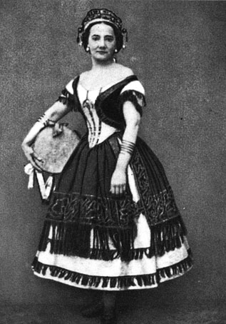 Petrine Fredstrup in ballet In the Carpathians